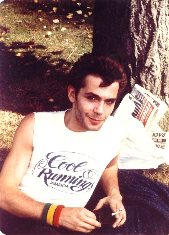 John Breck (Doyle) Actor, Born Glasgow 24.12.1953 , Died Glasgow 8.01.1984